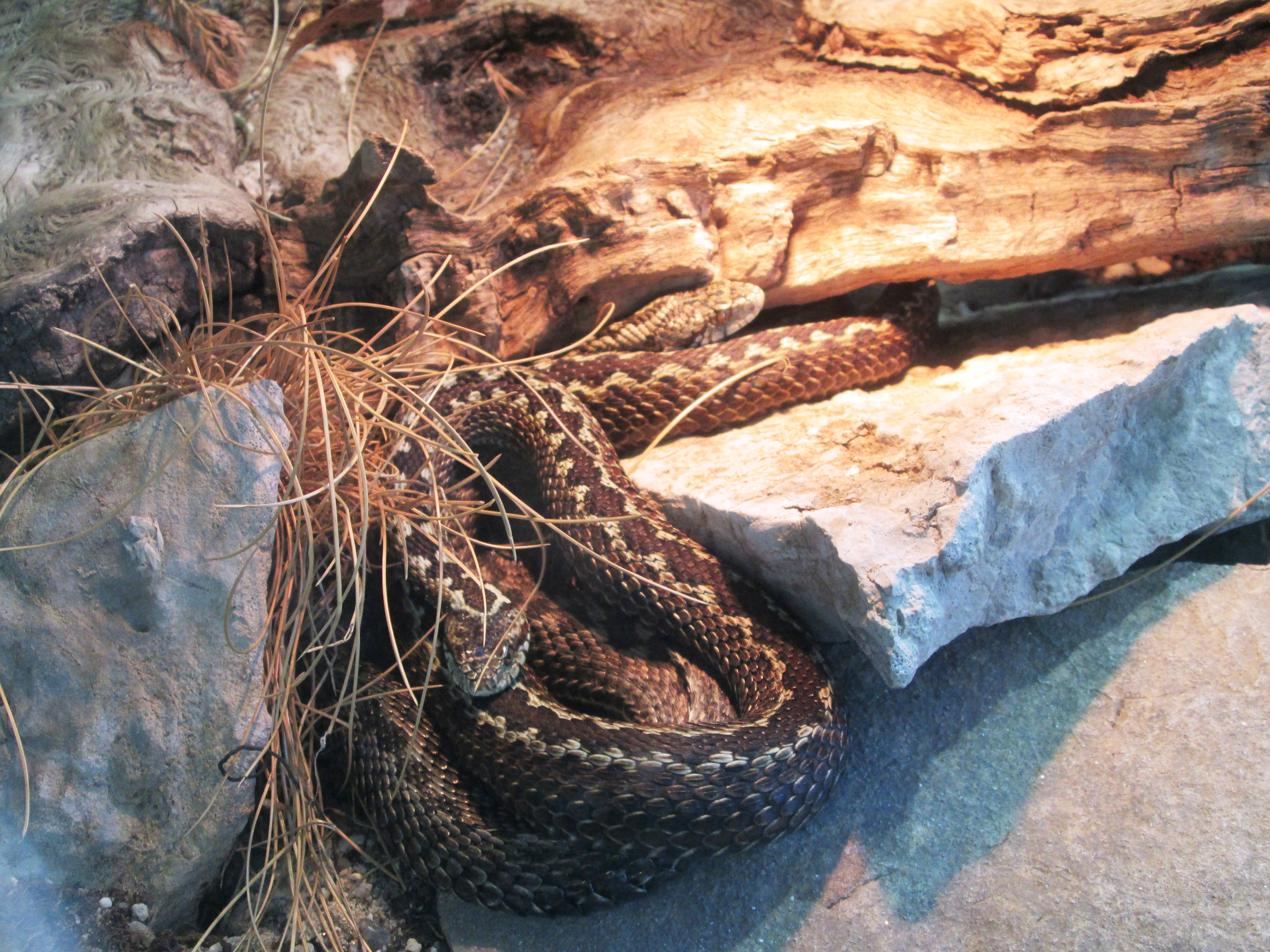 Vipera ursinii var. macrops in Zagreb Zoo